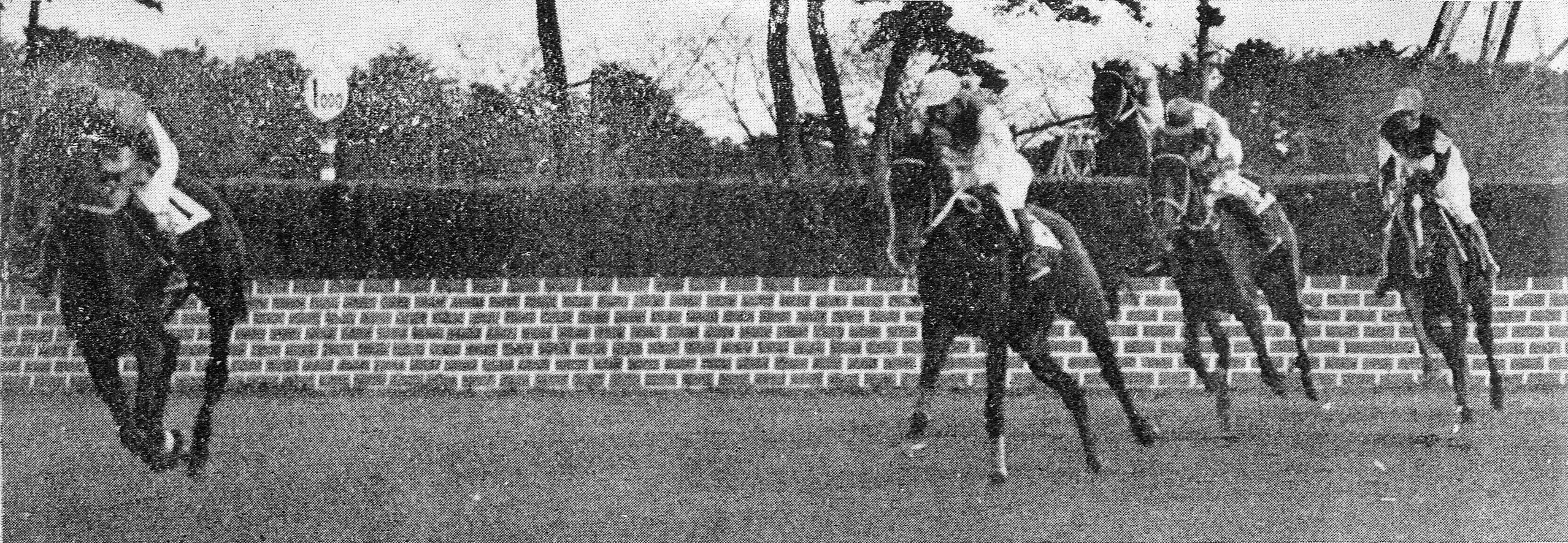 Nakayama Daishogai Autumn(1955)